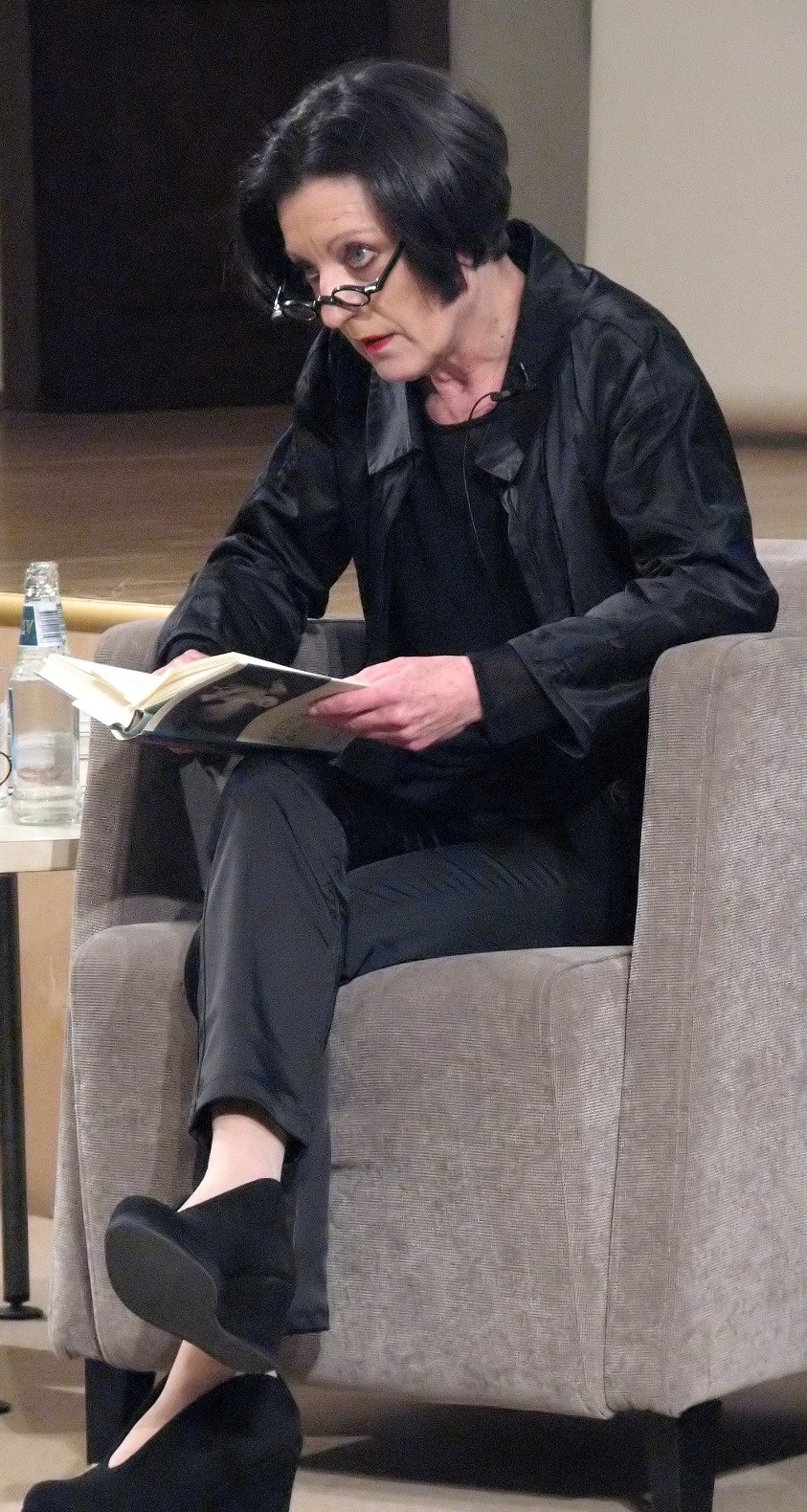 Herta Müller reading some chapters of her book in National Library of Estonia